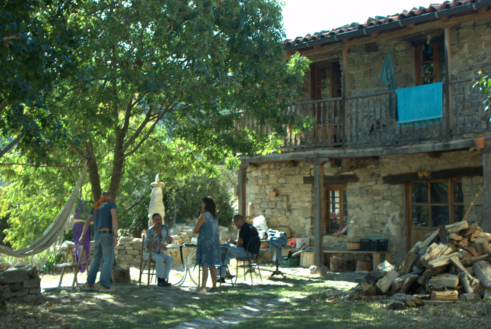 Lakabe.